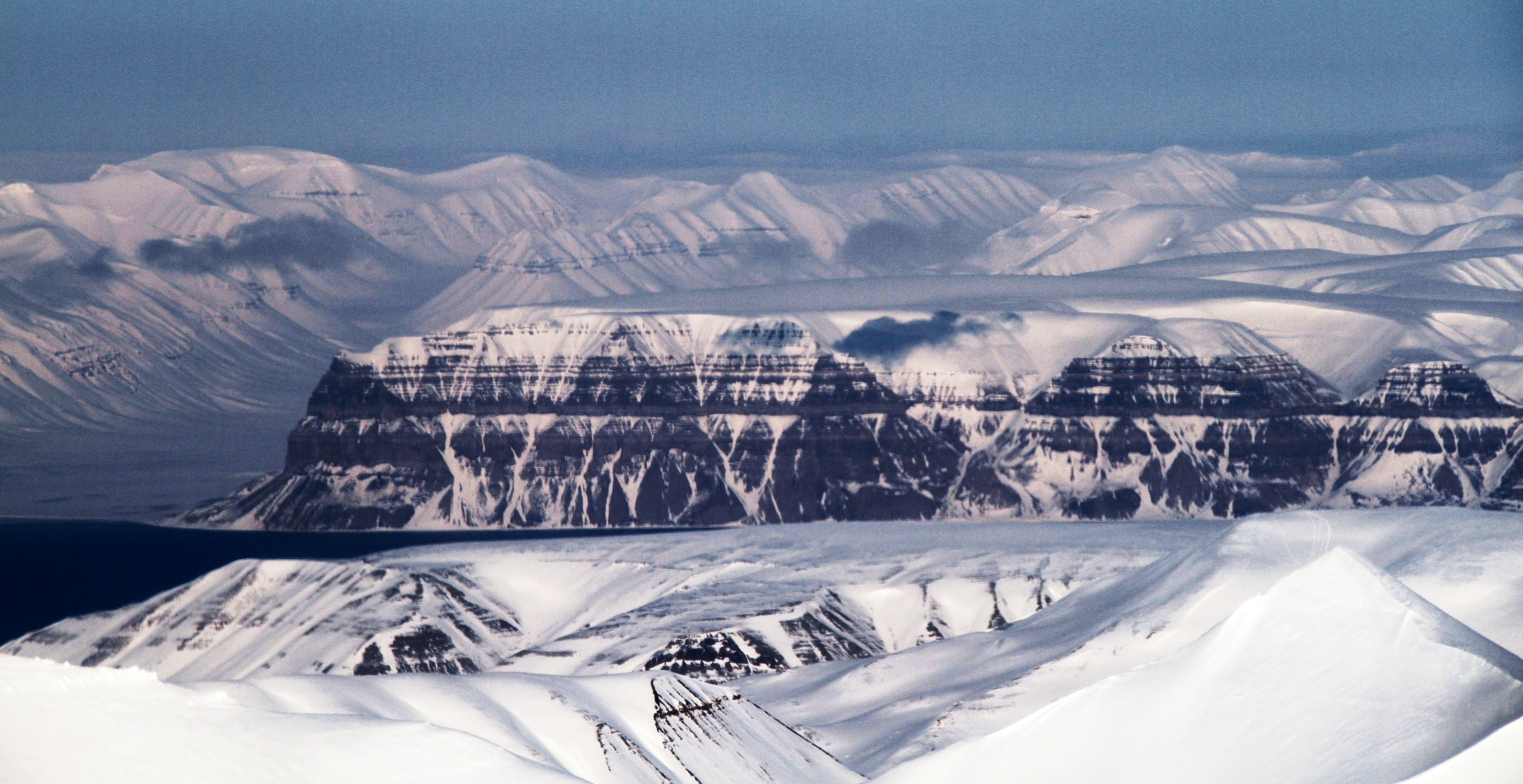 Tempelet mountain by the Temple fjord, north of Longyearbyen, Spitsbergen (Norway). April.